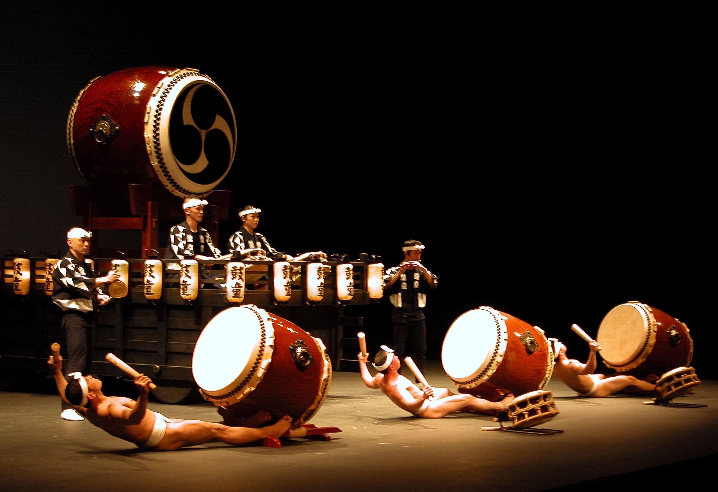 Photo of the group Kodo performing the ending to the taiko piece titled "Yatai-bayashi".